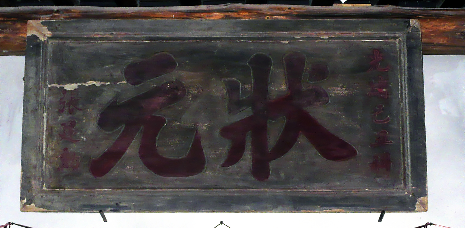 光緒十五年狀元張建勳狀元匾